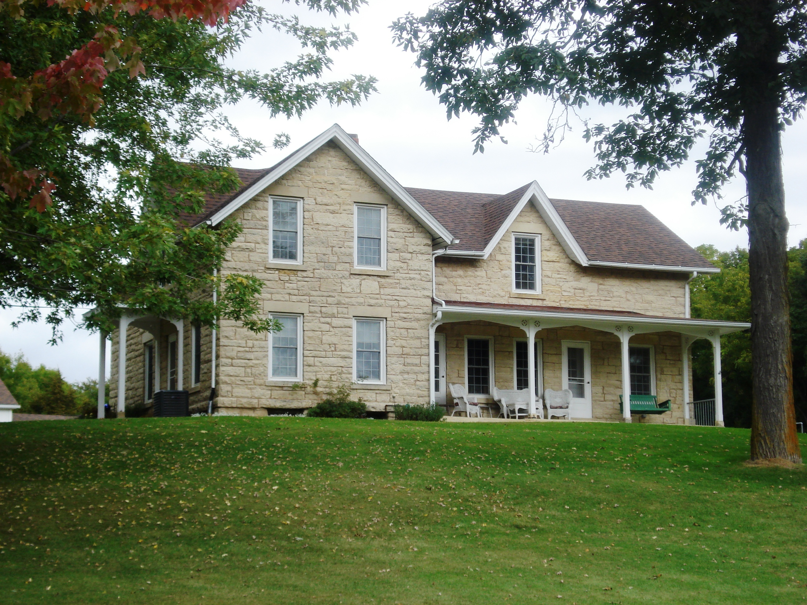 Limestone house — built by Henry Dearborn in 1870, Stone City, Iowa. Part of the John A. Green Estate — Stone City National Register of Historic Places.